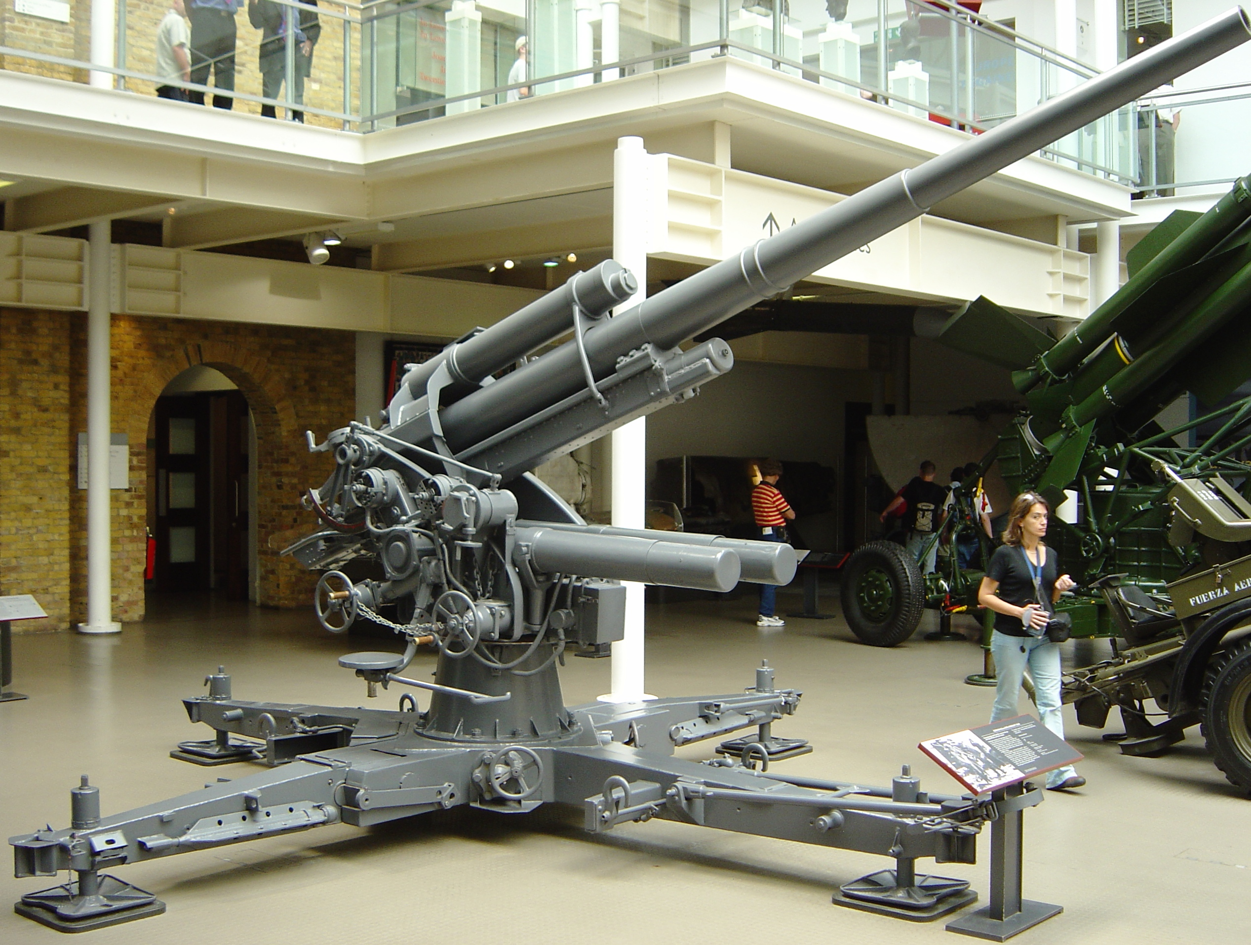 An "old type" (they were rechangeable) barrel on a Flak 36 cruciform mount. At the Imperial War Museum London